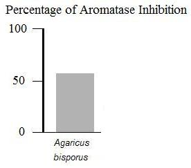 Enzyme inhibition assay with the table mushroom.